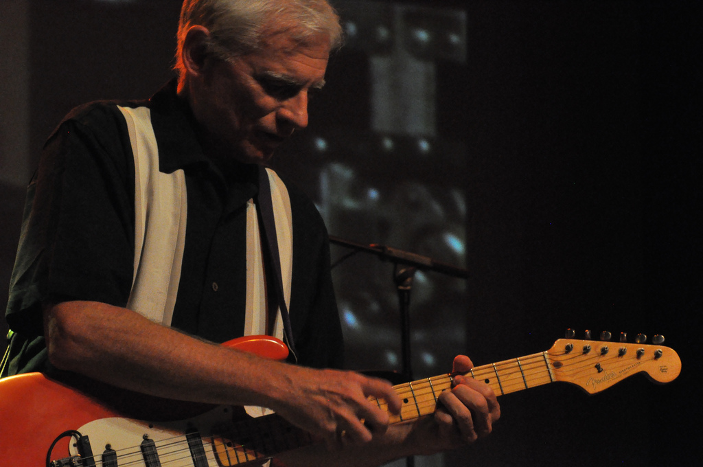 Randy Resnick playing with Canned Heat at the Avignon Blues Festival